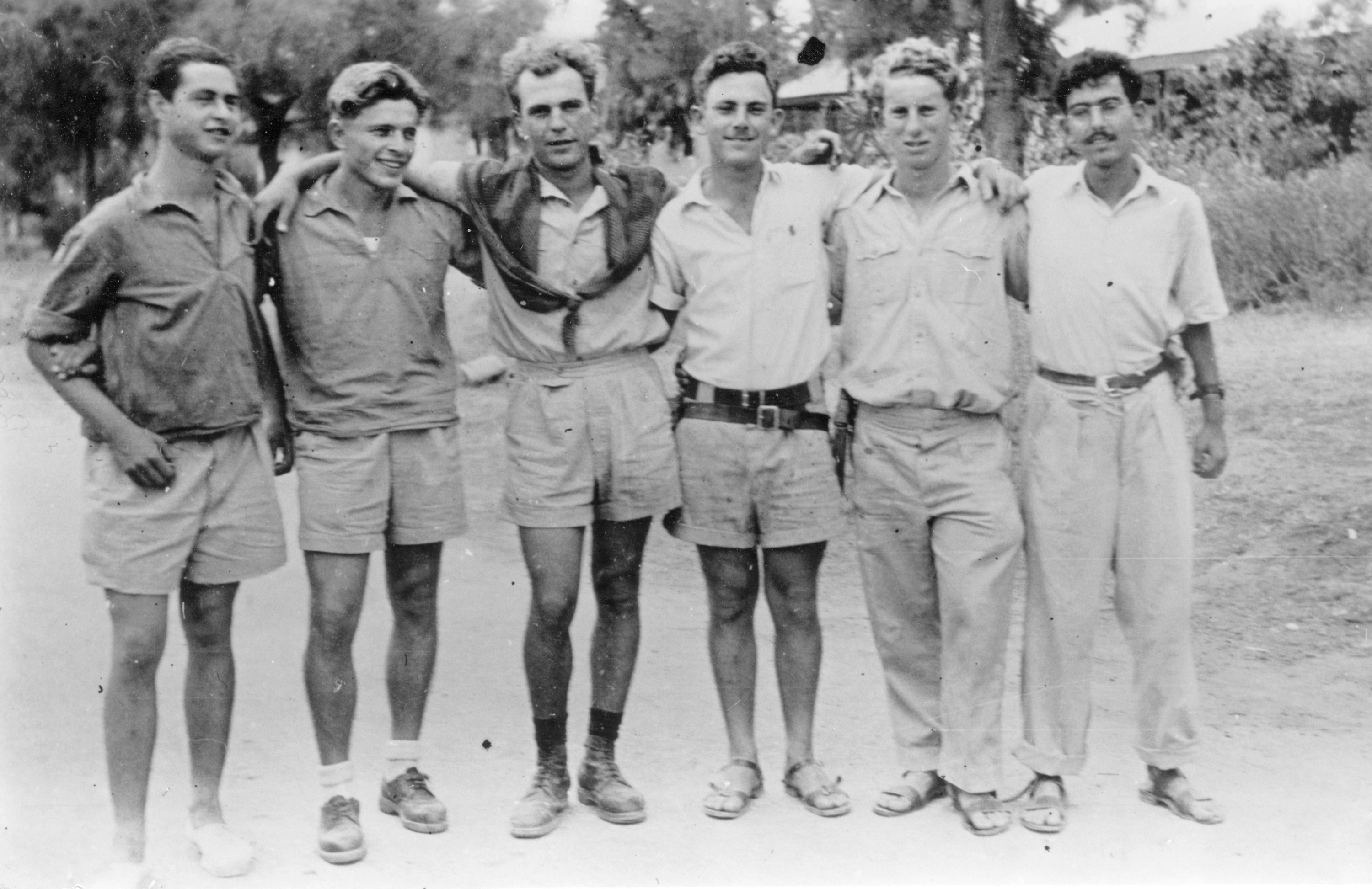 The Palmach, Israel Defense Forces